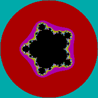 Complex recursive fractal, power 6